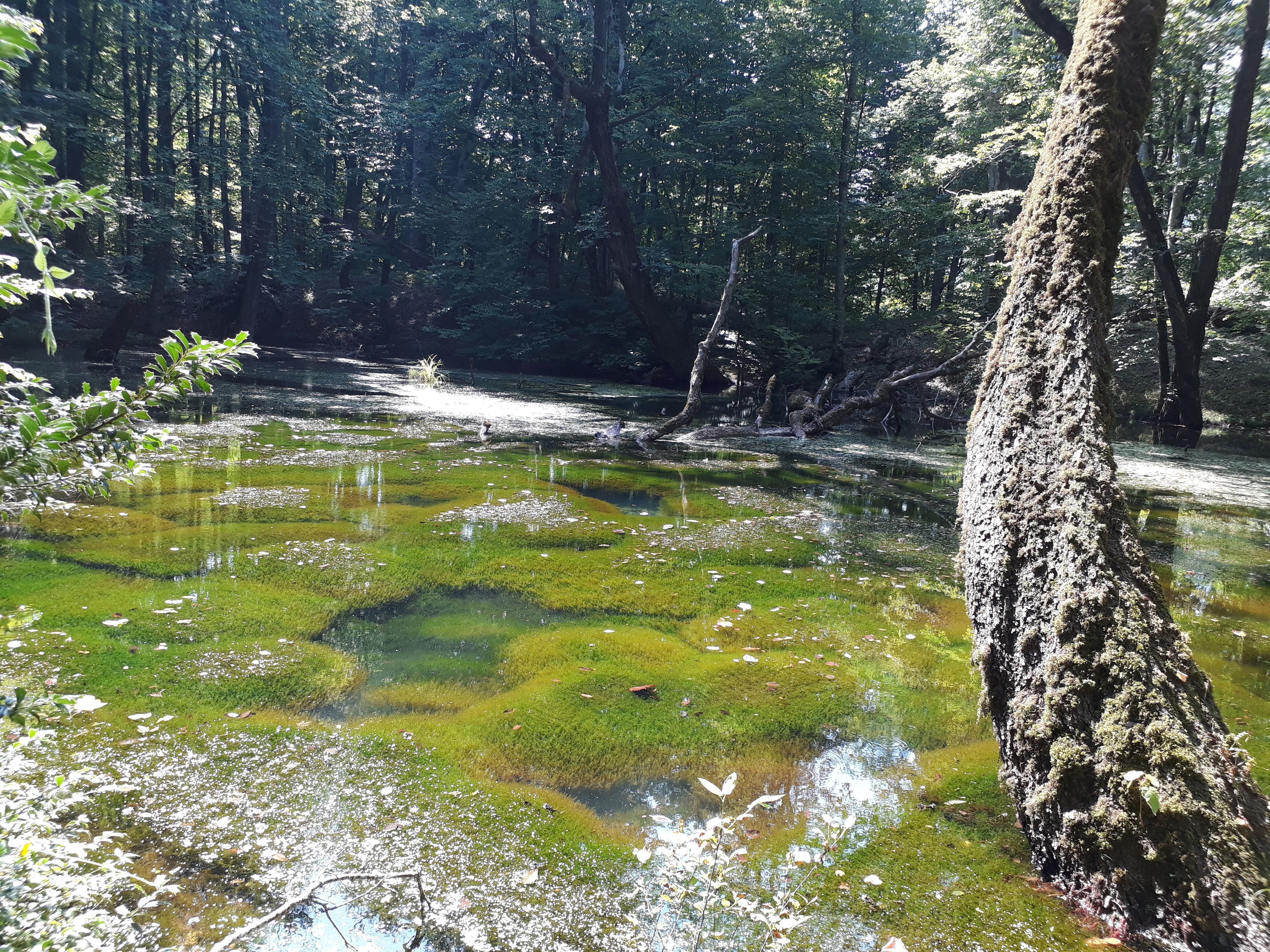 It is a forest pond located in Lerik, south region of Azerbaijan. There is no much visit to this small lake in last 50 years. It is totally isolated, and there is no any designated path to reach there. I have heard some rumours from old people that smugglers has used this pond to hide their stuff. It has a incredible view. It is now inhabited by a mass of frogs and some wild algae.